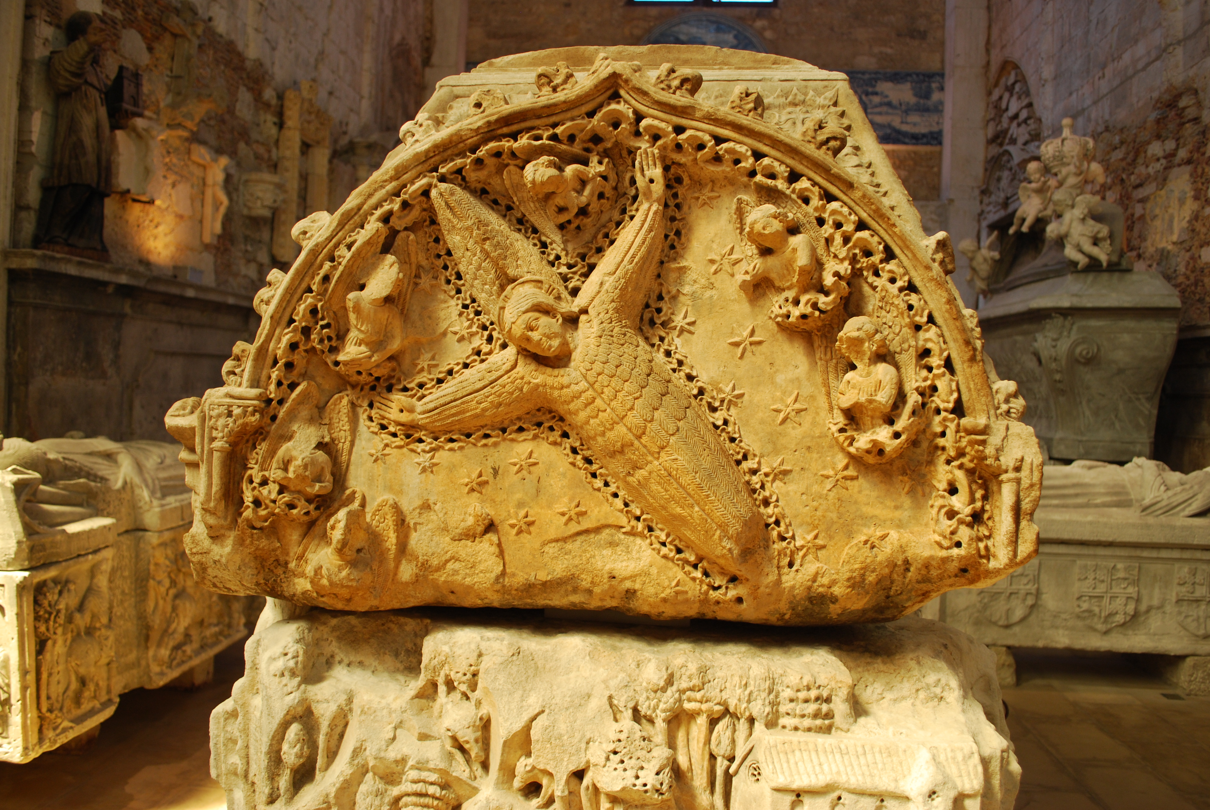 This file was uploaded for Wiki Loves Monuments in Portugal with the unique identifier 72498.